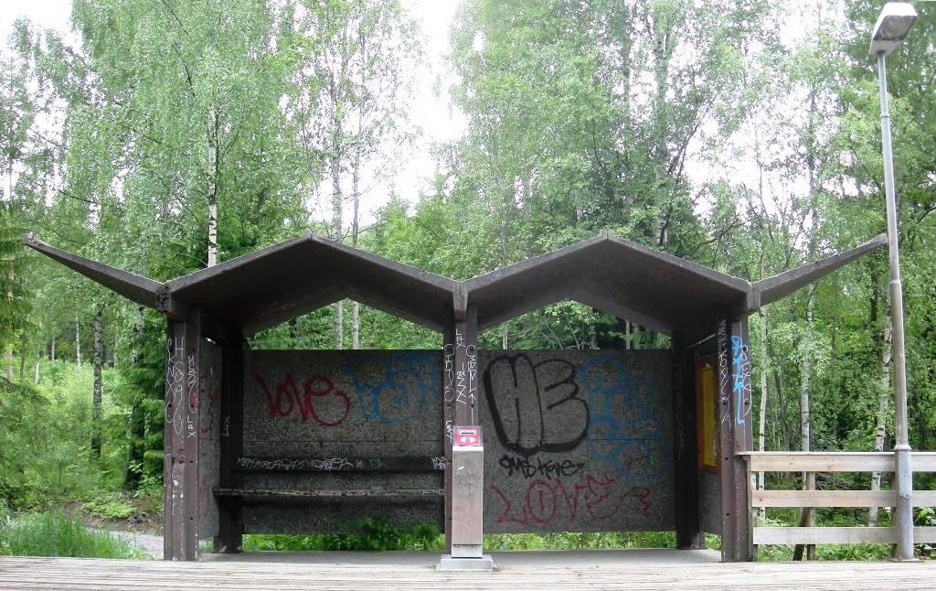 Varingskollen station on the Gjøvik line